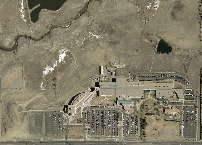 Aerial image of Front Range Community College.